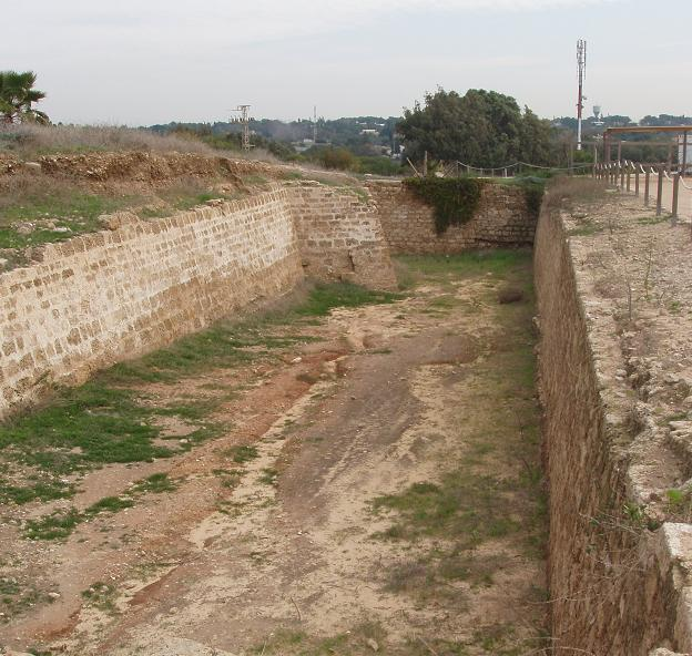 Apollonia excavations. A dry moat.